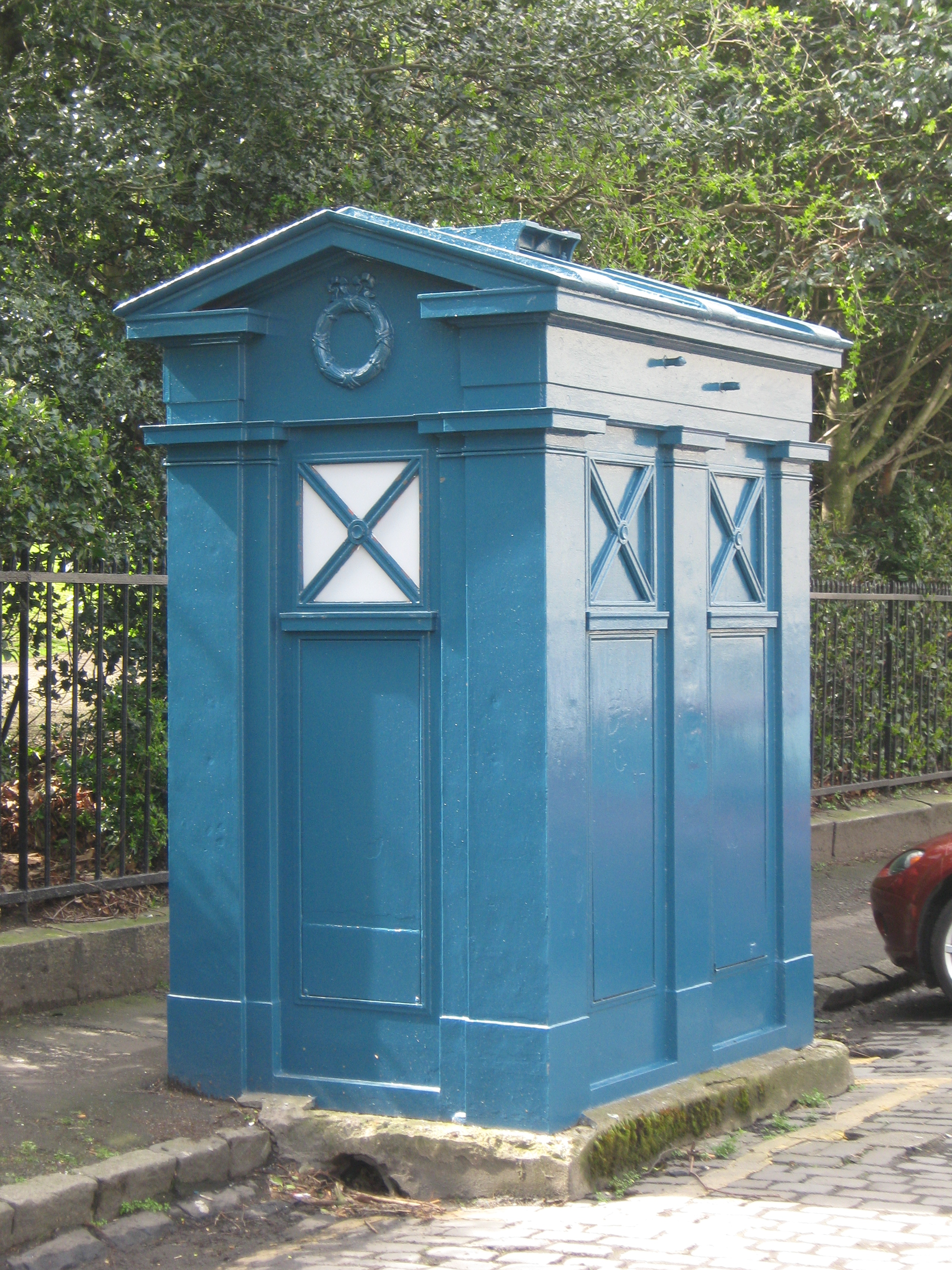 City of Edinburgh Police. This design, apparently unique to Edinburgh, can be seen all over the city. Although no longer in use as Police Call Boxes, many have been converted into coffee/snack vending places. This particular example is very well-kept as-compared to many which are in disrepair and vandalised. Location (OSM permalink)